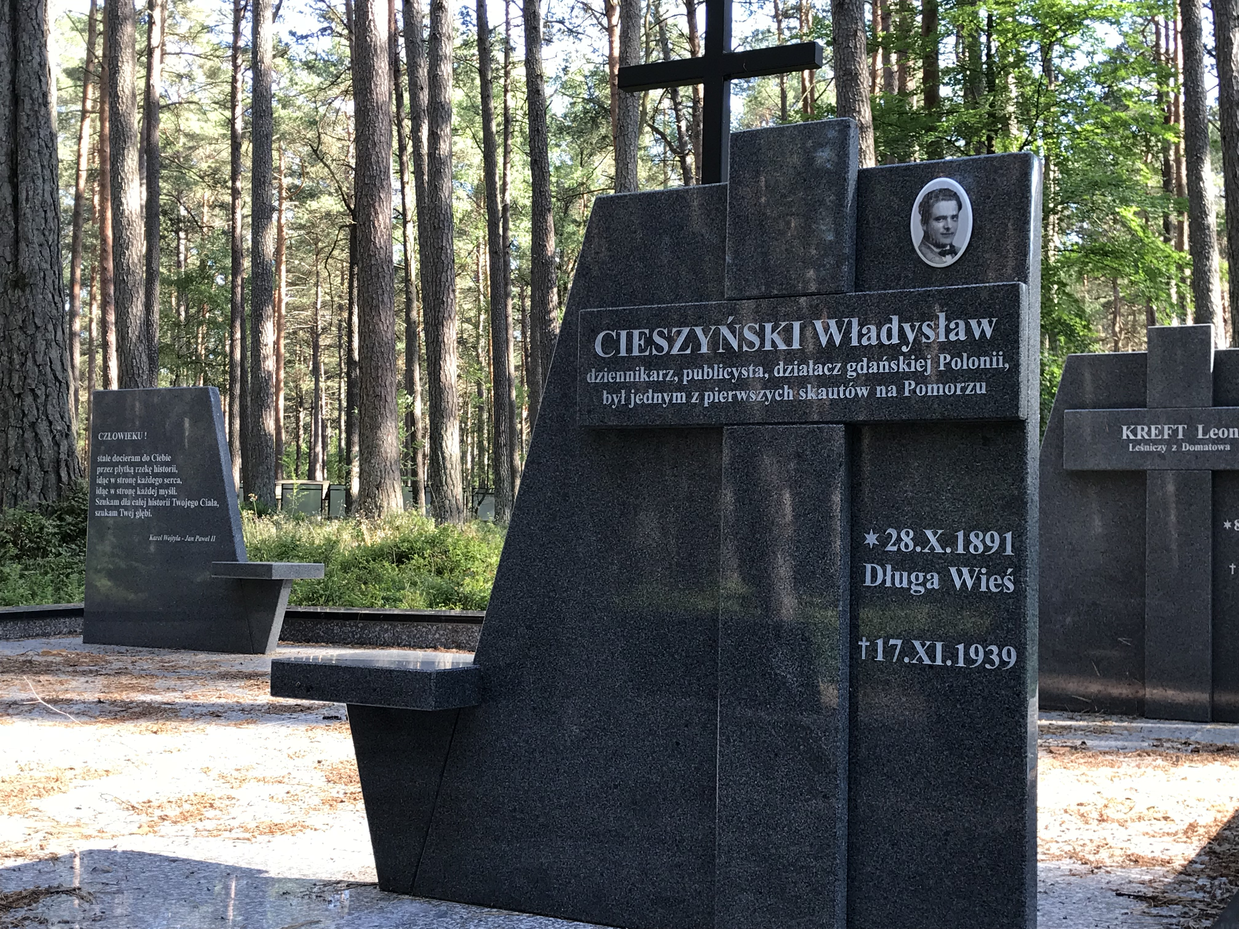 The thombstone of Władysław Cieszyński in Piaśnica.